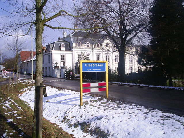 Vliek House in Ulestraten.